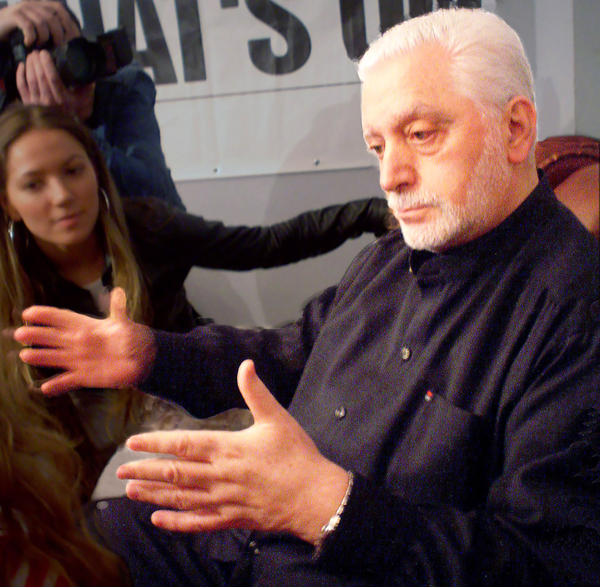 French couturie Paco Rabanne visited Kyiv in 2006